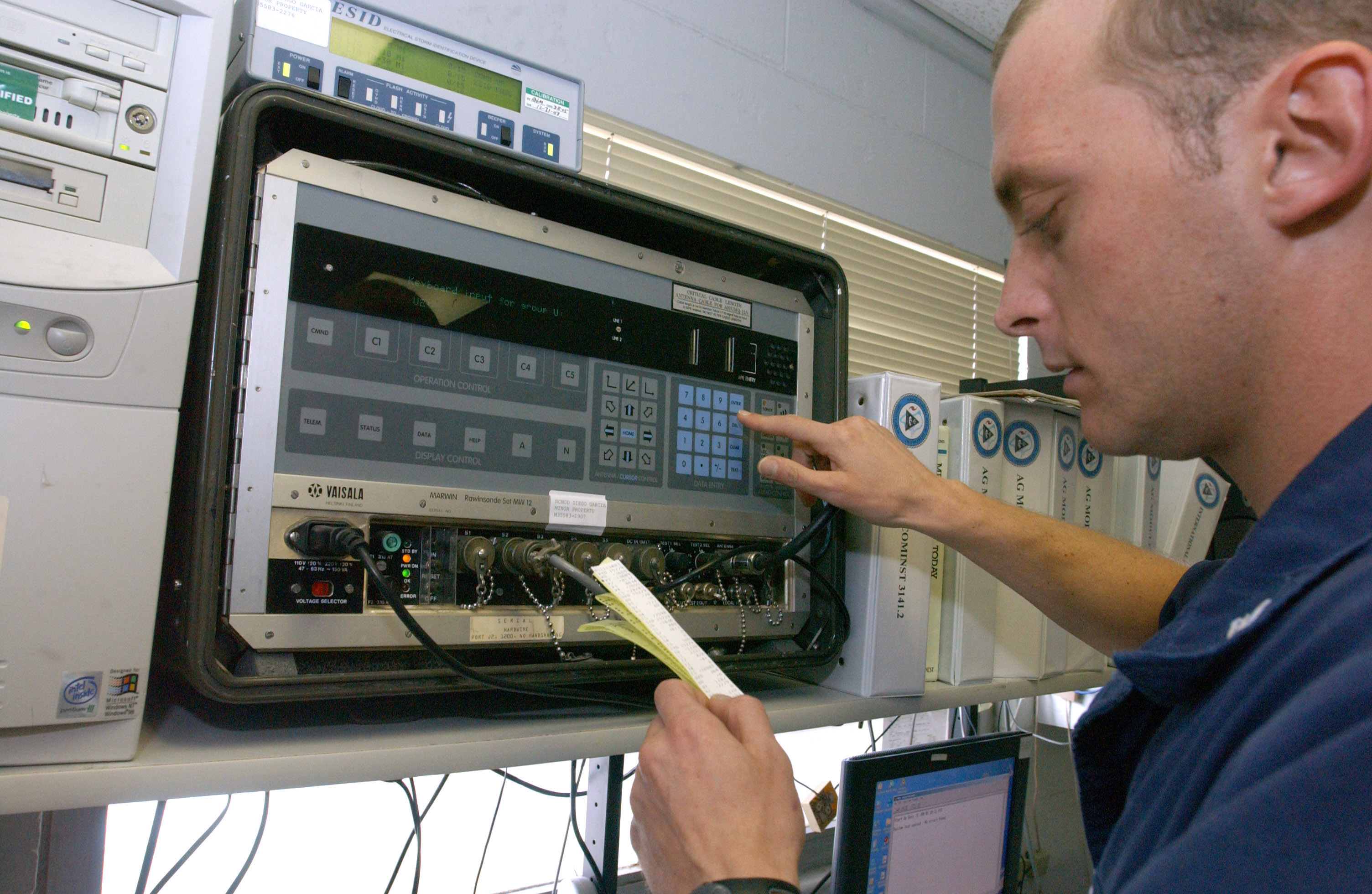 British Indian Ocean Territory (June 21, 2005) – U.S. Navy Aerographer's Mate 3rd Class Antoine Giacometti programs information into a weather data receiver before the release of a weather balloon at a forward operating location in the British Indian Ocean Territory. The receiver needs to be programmed to ensure information from the transmitter on the weather balloon can be received and decoded by weather equipment. U.S. Air Force photo by Staff Sgt. Jocelyn Rich (RELEASED) Vaisala Marwin Rawinsonde Set MW 12